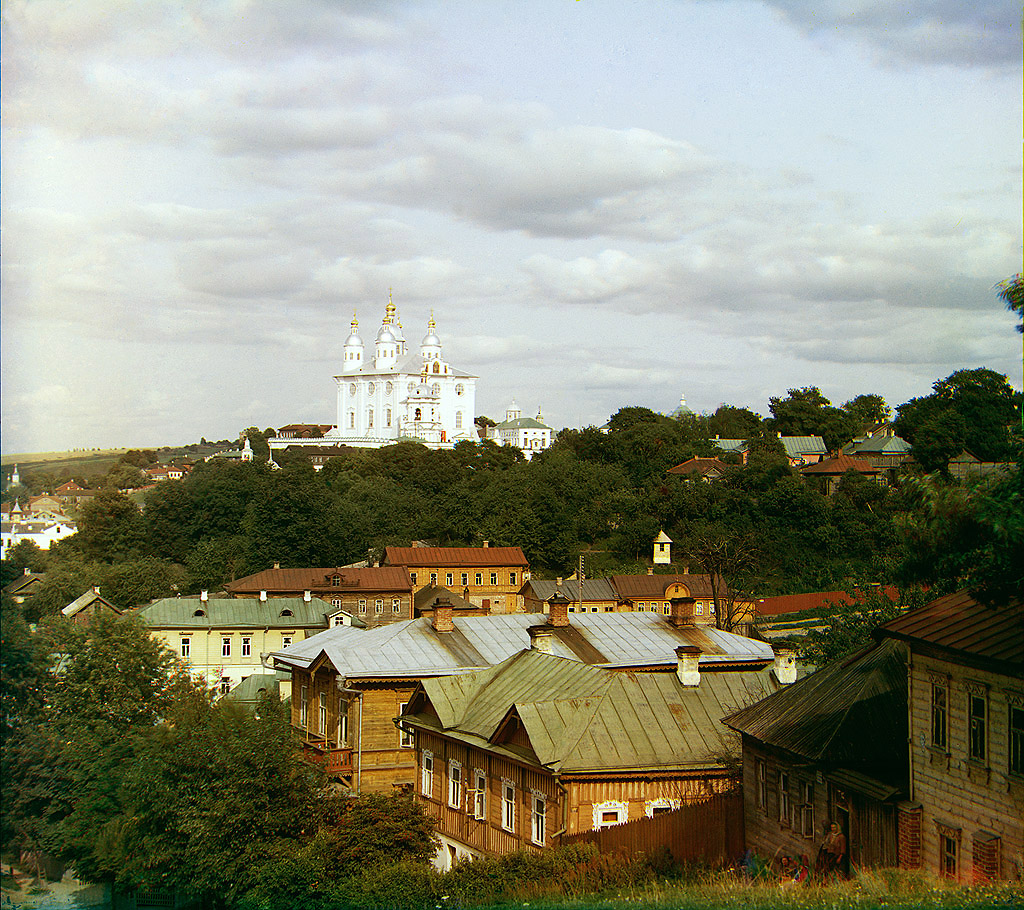 The Assumption Cathedral in Smolensk